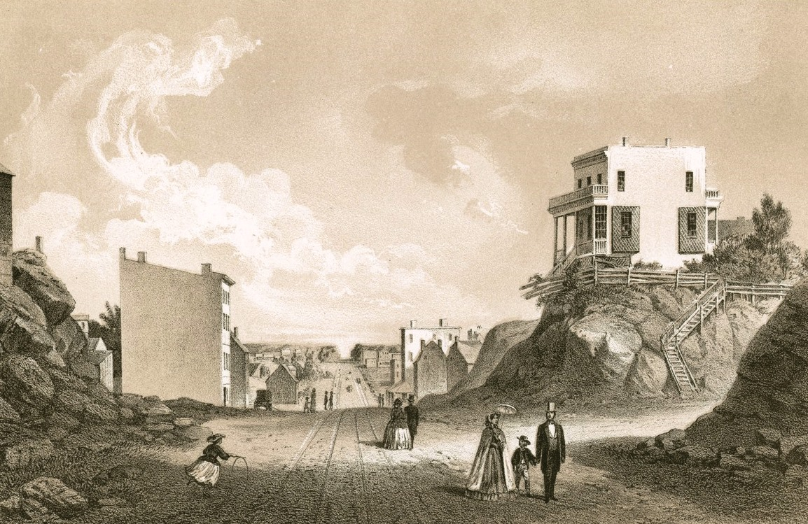 "View of 2d AVe Looking Up From 42d St - 1861"